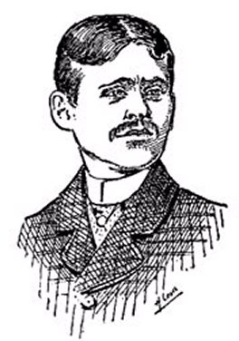 From a print dated 1887